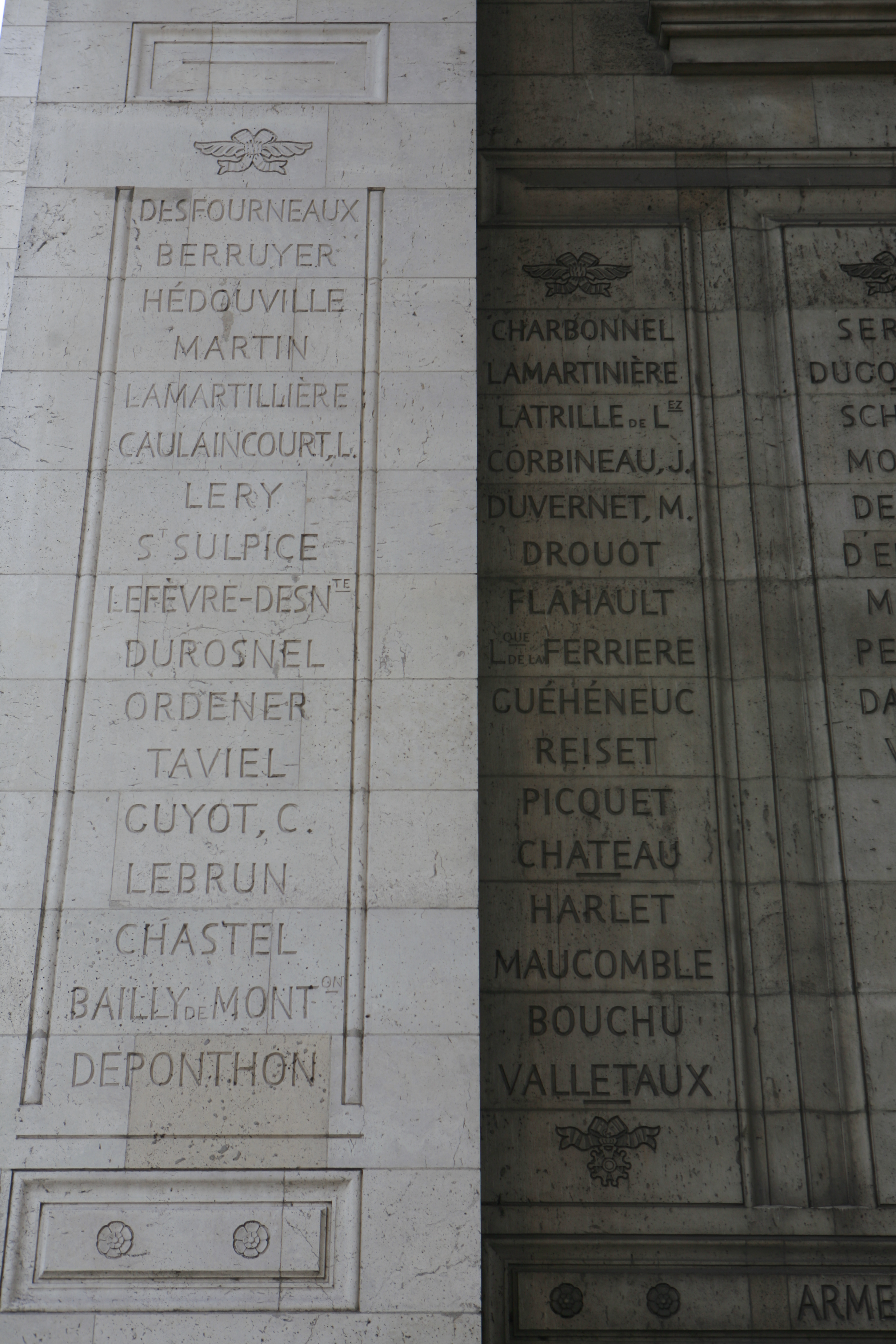 Inscriptions of the Arc de Triomphe. Western pillar, Columns 31, 32.